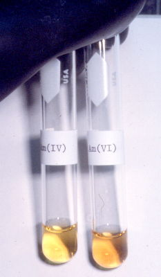 Americium in its oxidation states IV and VI in 2M Na2CO3